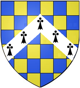 Armorial of Newburgh/Beaumont Earls of Warwick: Checky azure and or a chevron ermine. As stated on several 13th. c. Rolls of Arms, incl. Collins' Roll, Glover's Roll, Walford's Roll, St George's Roll, all for "Thomas, Earl of Warwick", (i.e. Thomas de Beaumont, 6th Earl of Warwick (d.1242))